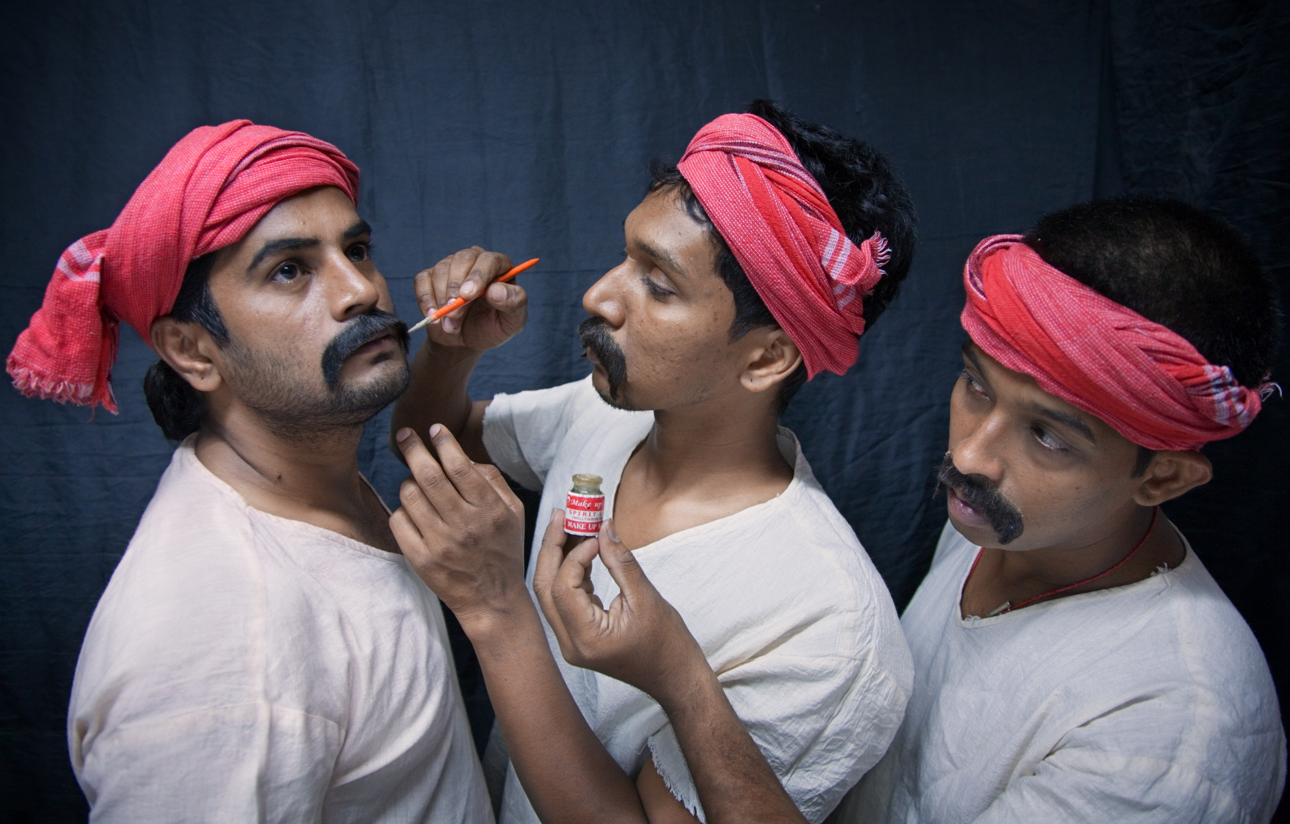 Actors in the makeup process of a Koothu-P-Pattarai theater perfomance, India.